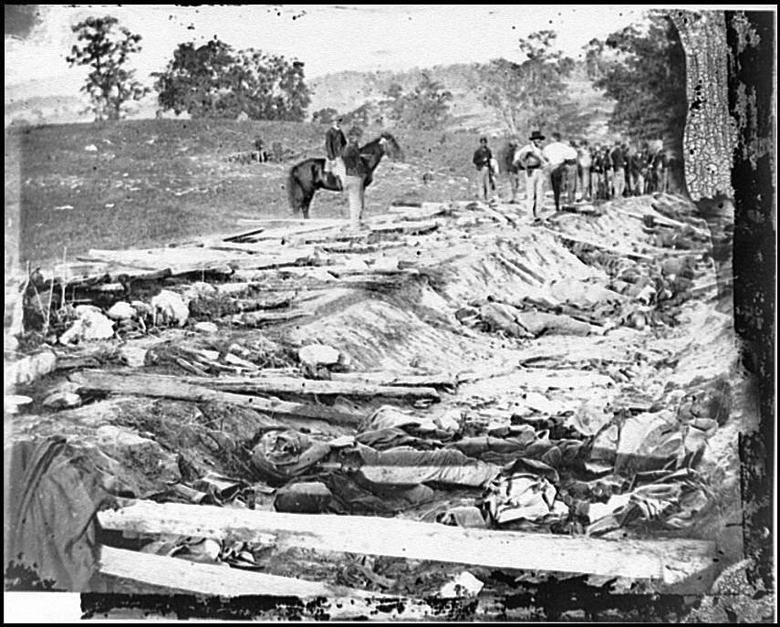 Title: Antietam, Md. Confederate dead in a ditch on the right wing used as a rifle pit Abstract: Selected Civil War photographs, 1861-1865 (Library of Congress) Physical description: 1 negative : Notes: Antietam, Battle of, Md., 1862.; War casualties.; Firearms.